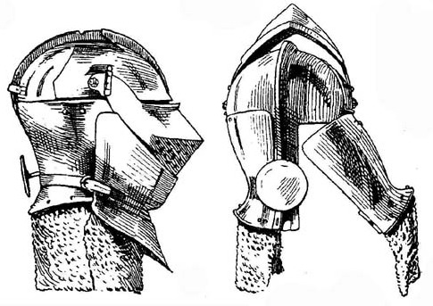 Italian Armet, 1490